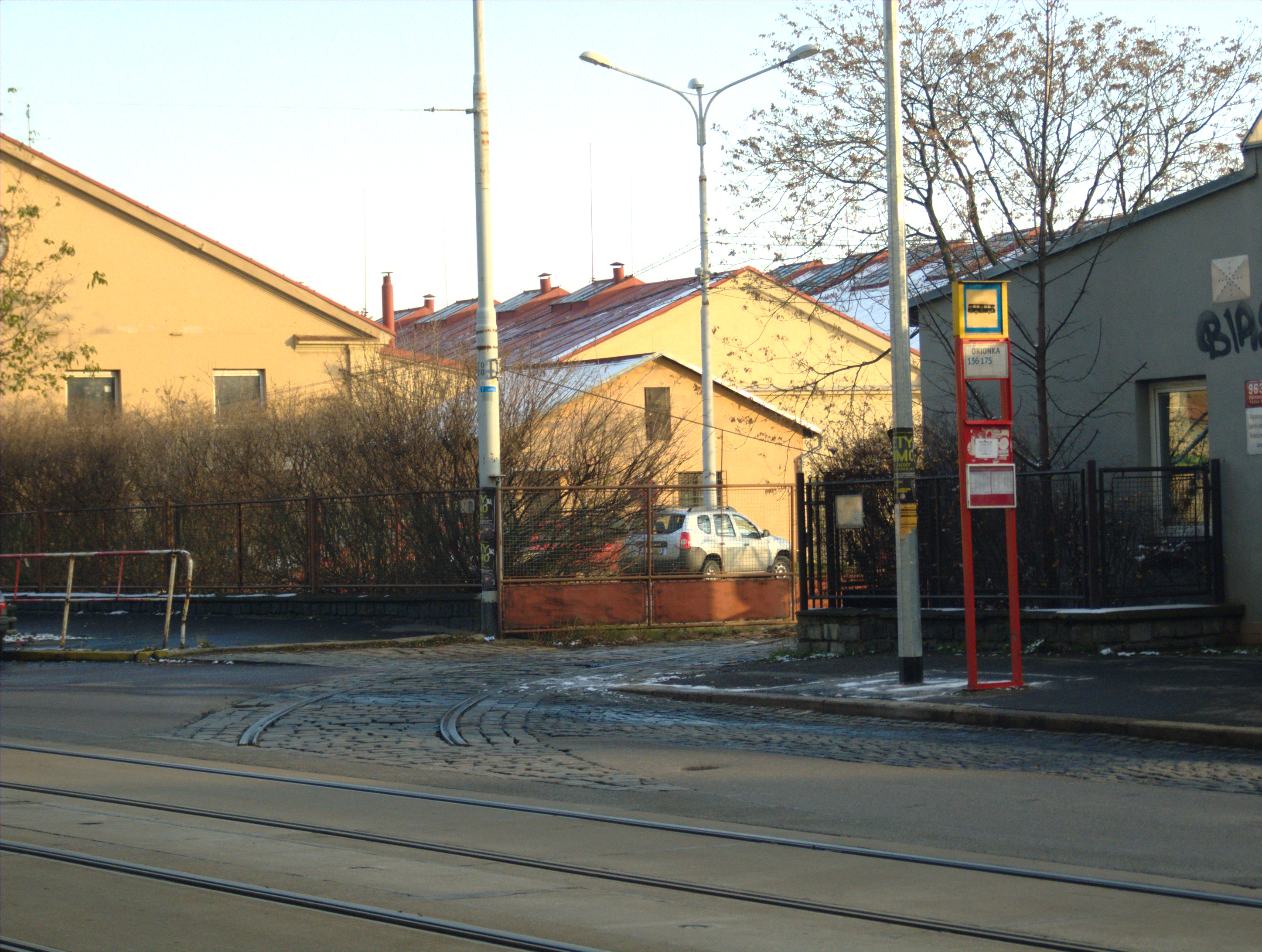 An enterance to former tram and trolleybus depot Orionka, Prague-Vinohrady, CZ